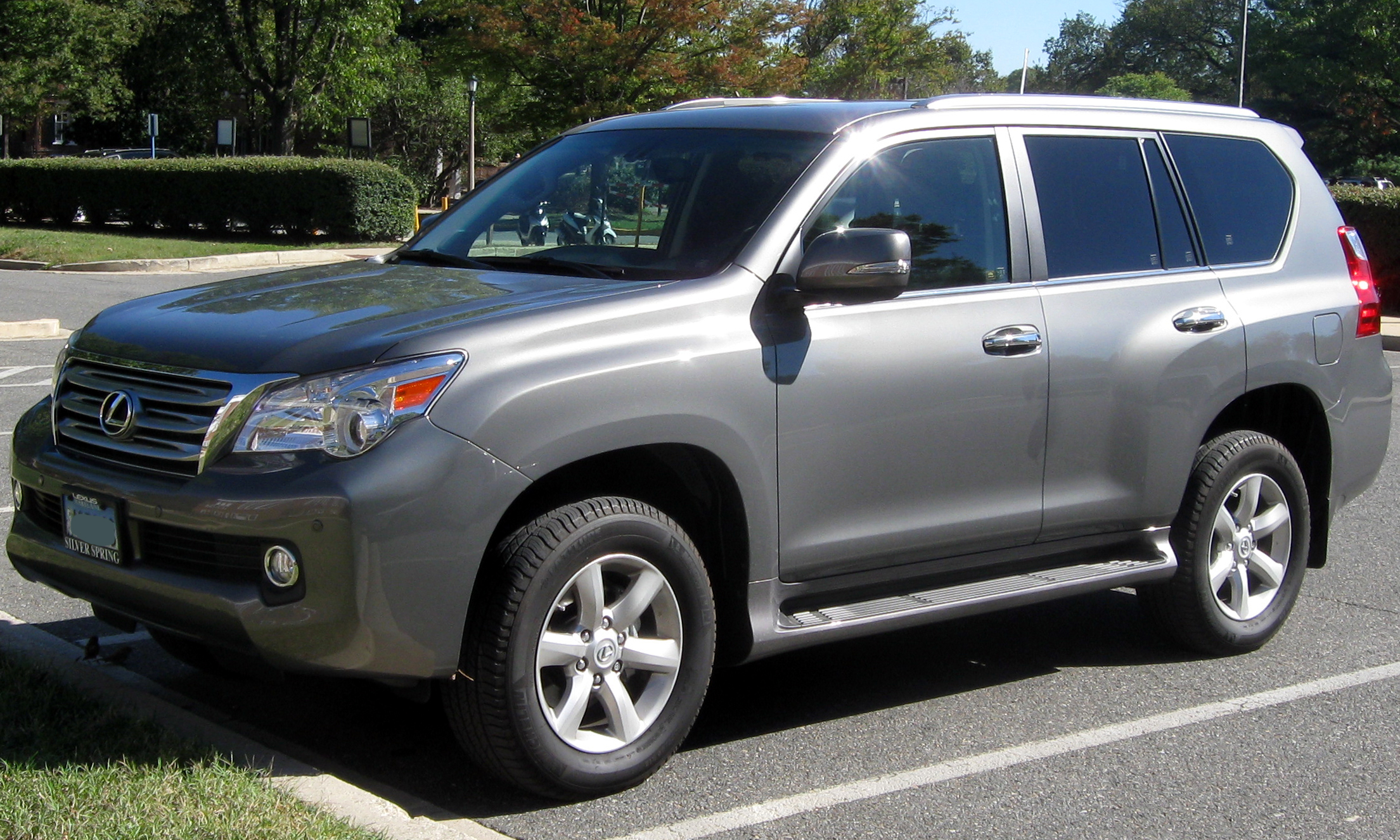 2010-2011 Lexus GX 460 photographed in College Park, Maryland, USA.